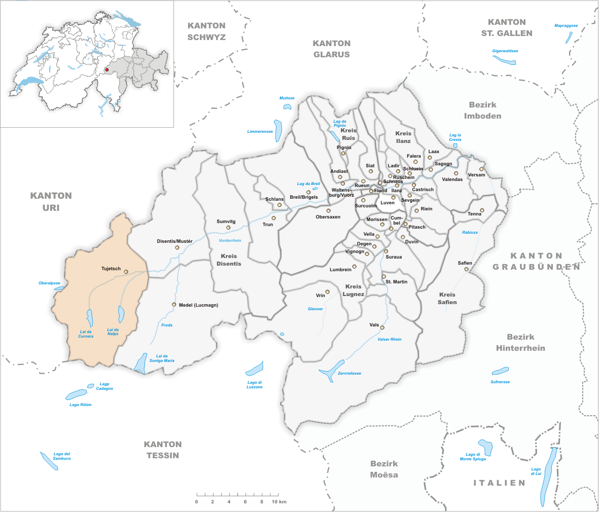 Municipality Tujetsch